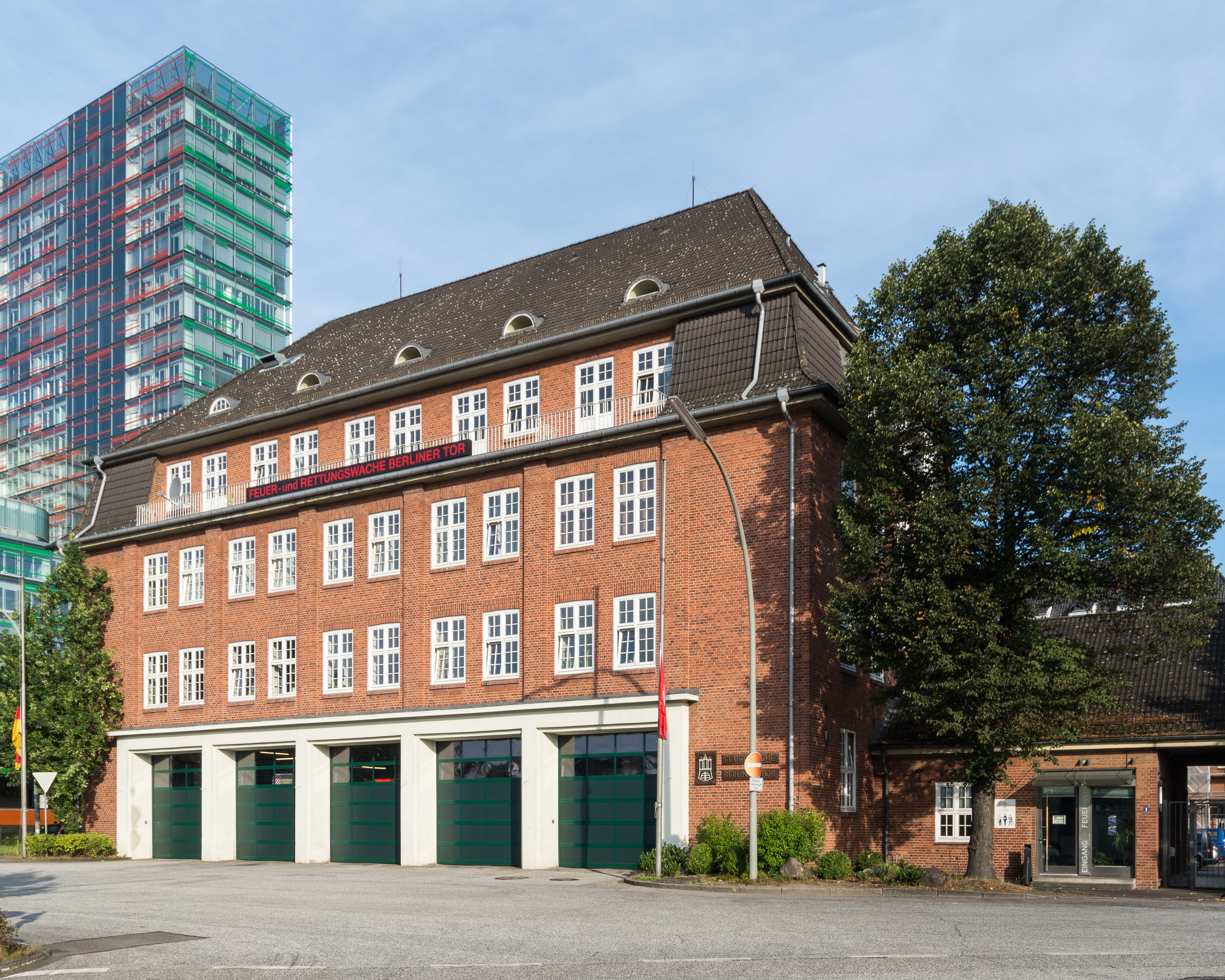 Main fire station Berliner Tor in Hamburg. This is a photograph of an architectural monument.